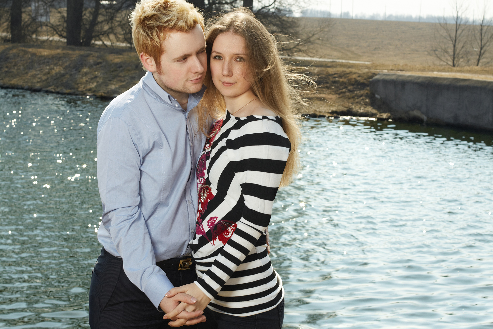 Ben and Tatyana Woollaston